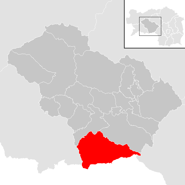 district Murtal in Styria, Austria